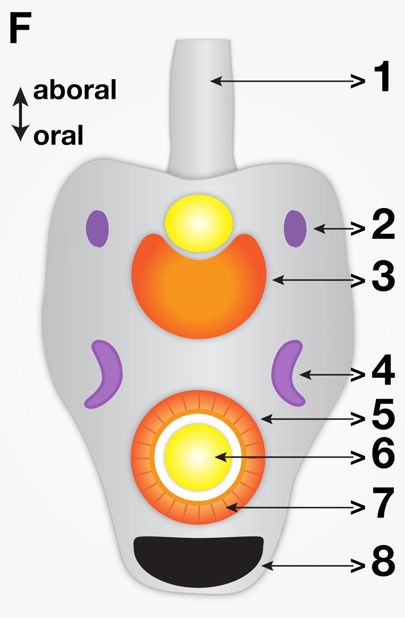 Chiropsalmus quadrumanus Rhopalia sketch